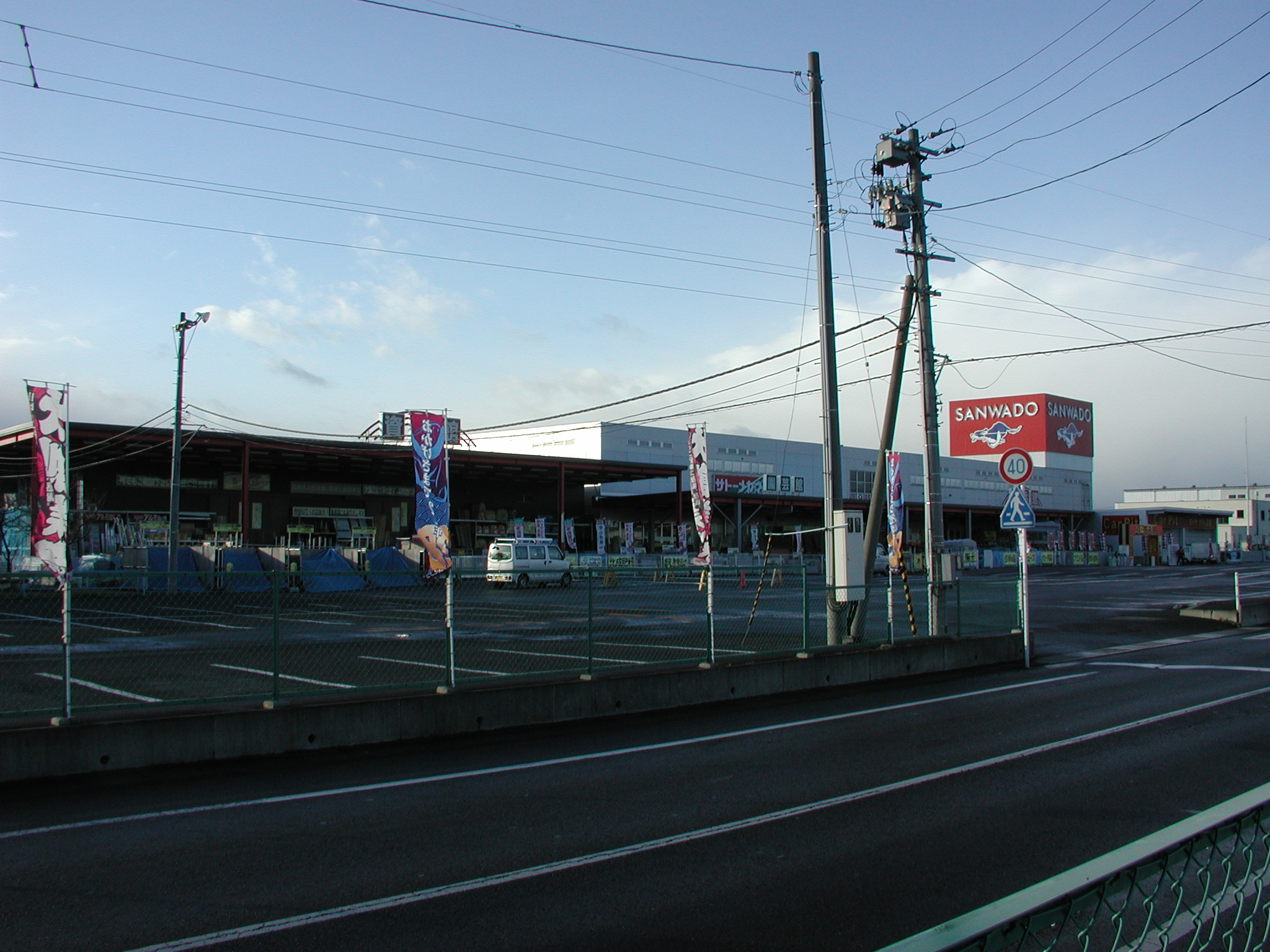 SANWADO Hasshoku Shop